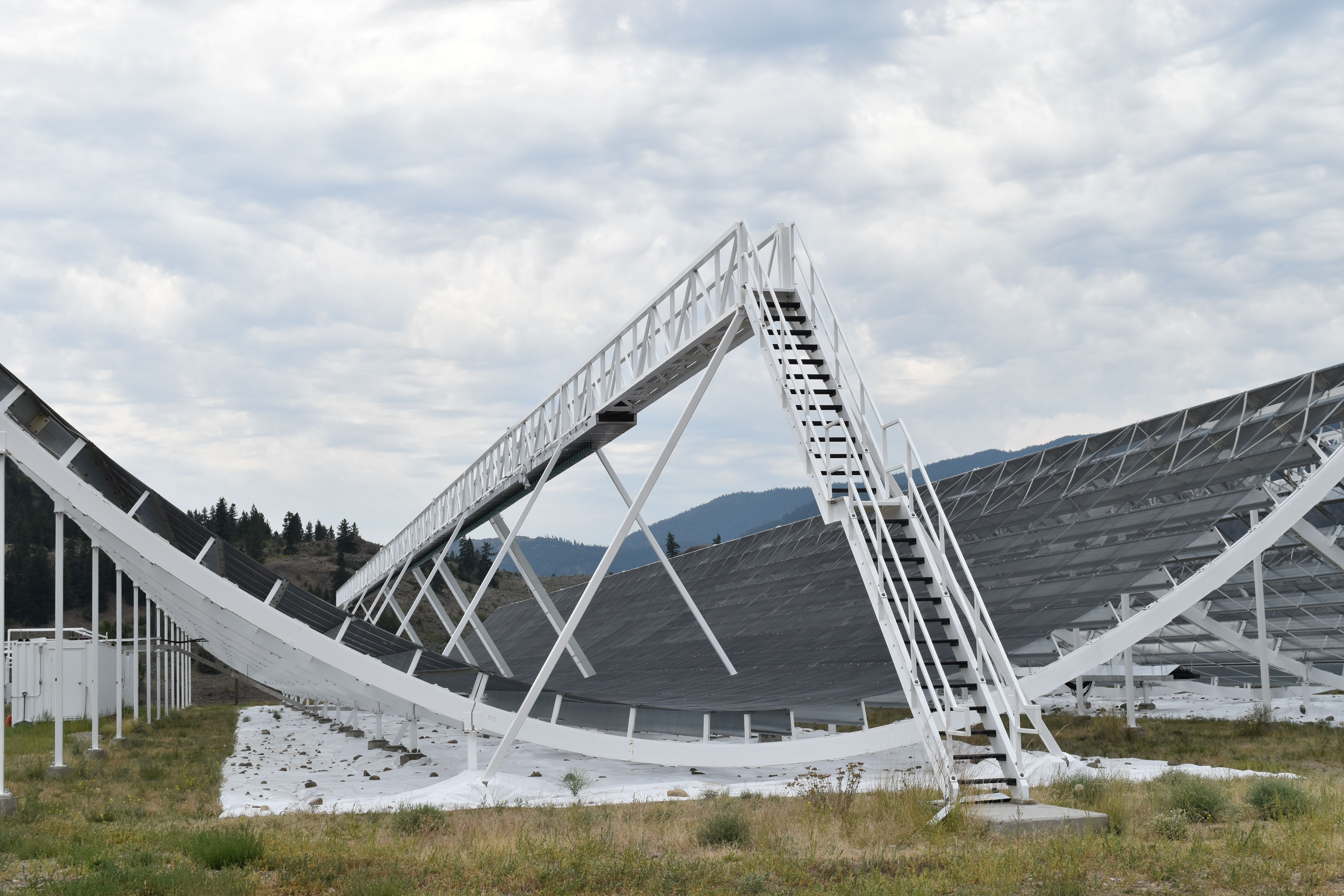 Wire-mesh half pipe reflector of the Canadian Hydrogen Intensity Mapping Experiment (CHIME) telescope reflects feeds radio signals to the telescope’s antennas located at the focus line at the center of the half pipe.